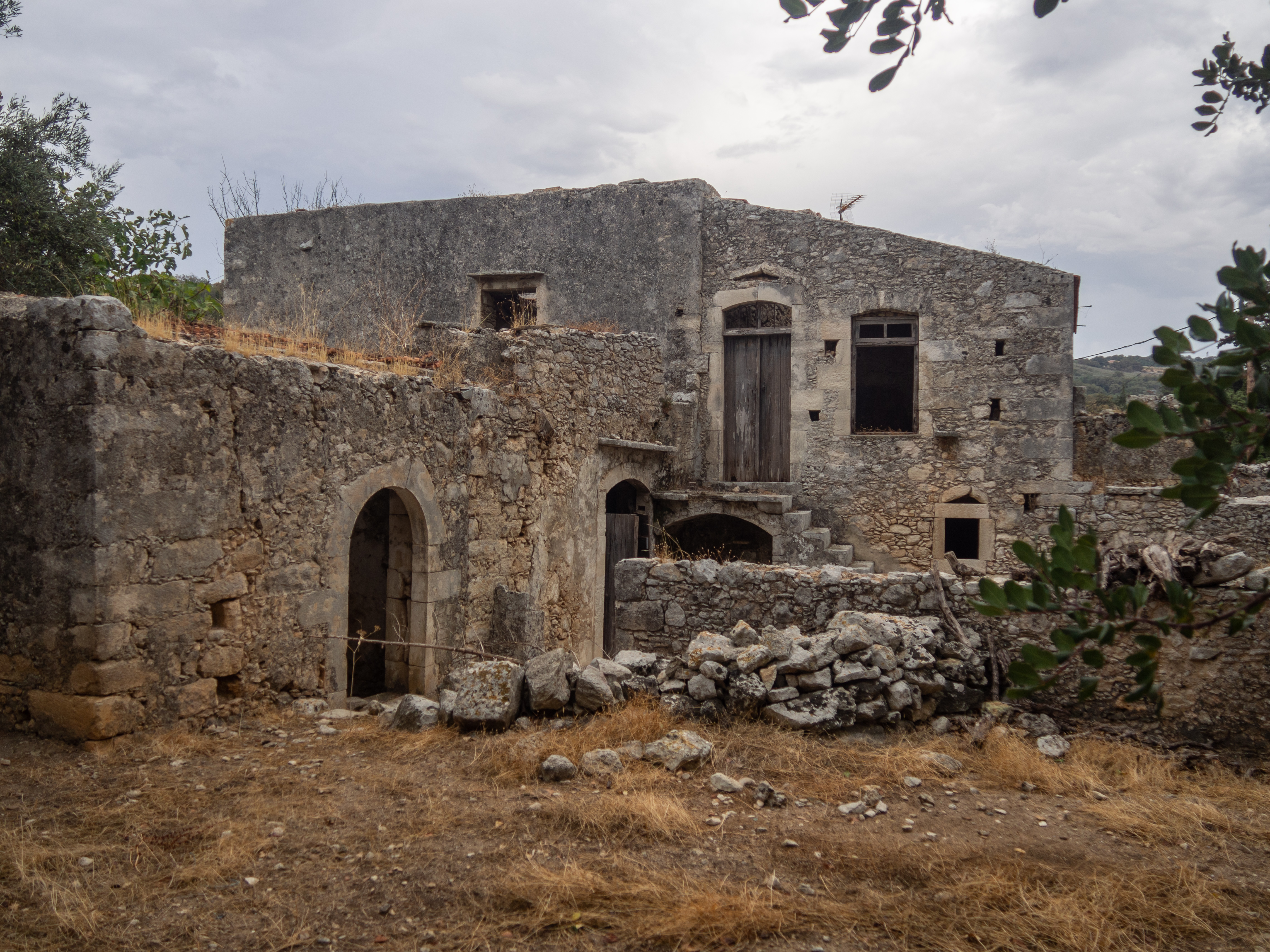 Old house in Vederi.